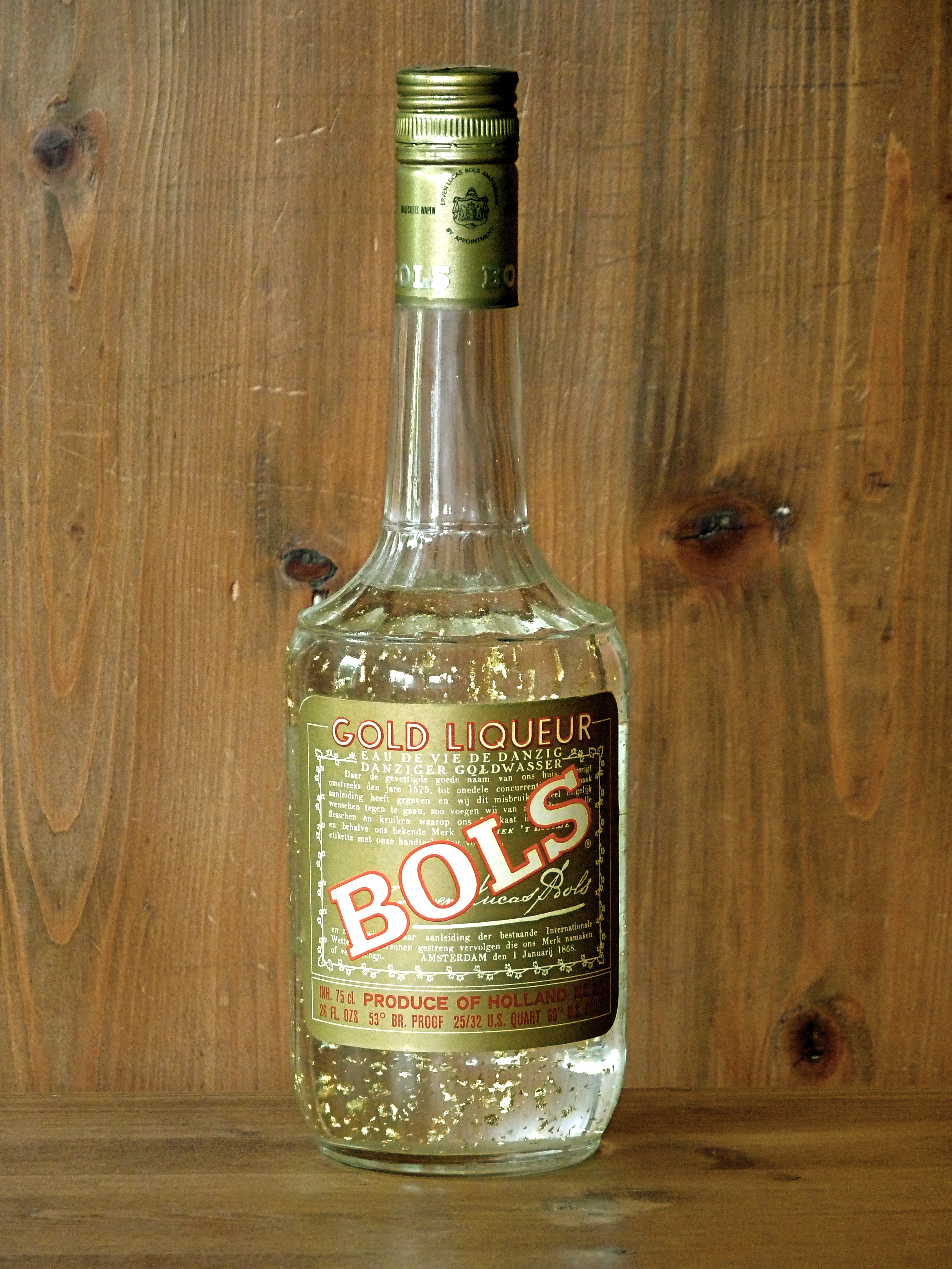 Gold Liqueur from the Lucas Bols company. (1970s)